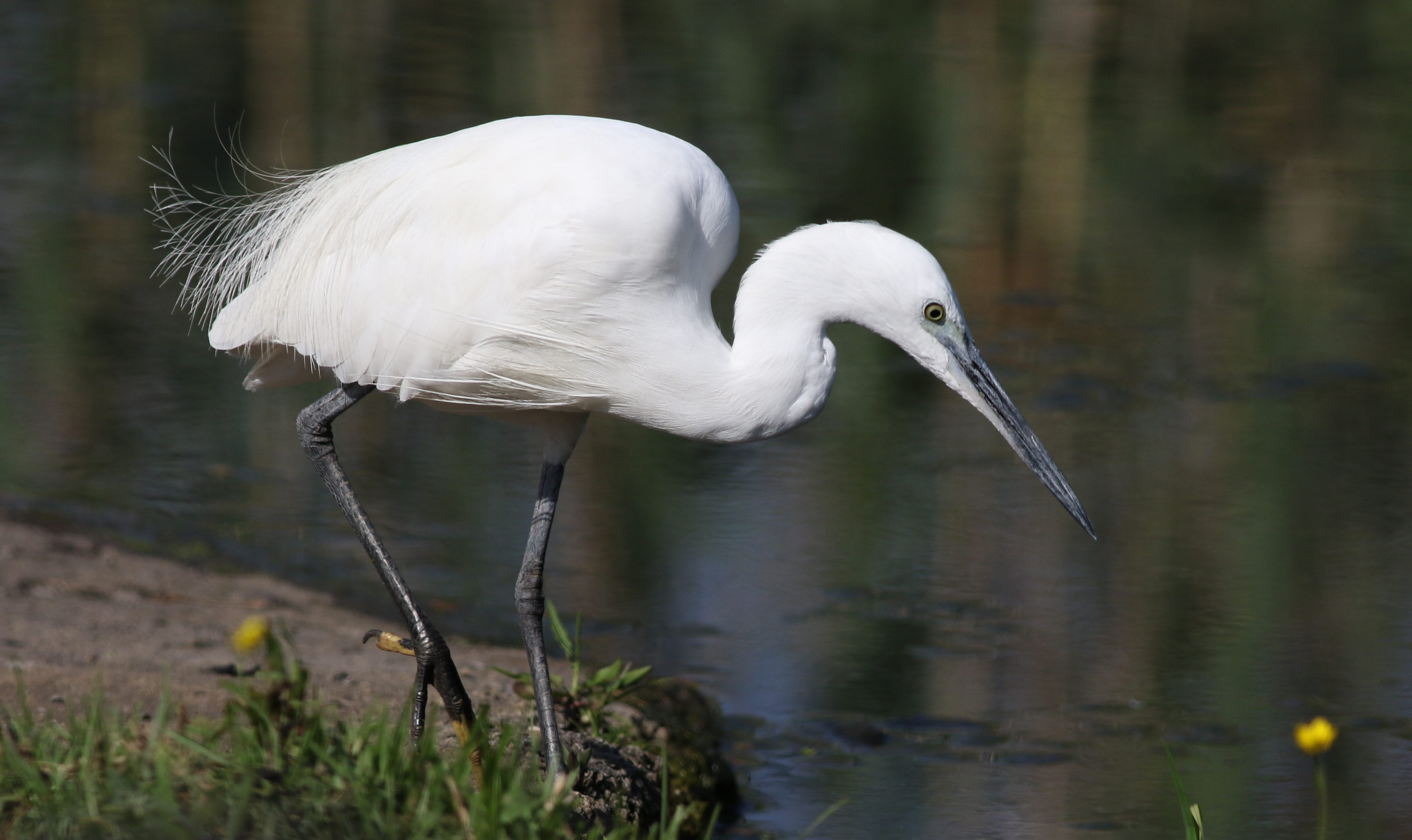 Little Egret, Egretta garzetta at Rietvlei Nature Reserve, Gauteng, South Africa